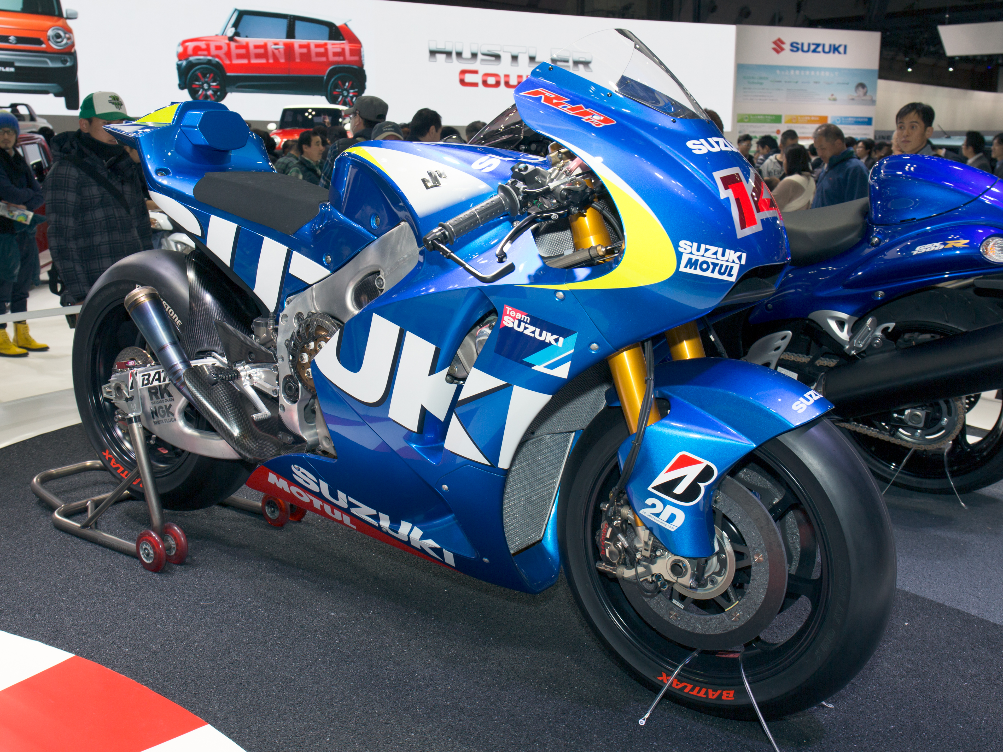 Tokyo Motor Show 2013: Suzuki MotoGP test bike